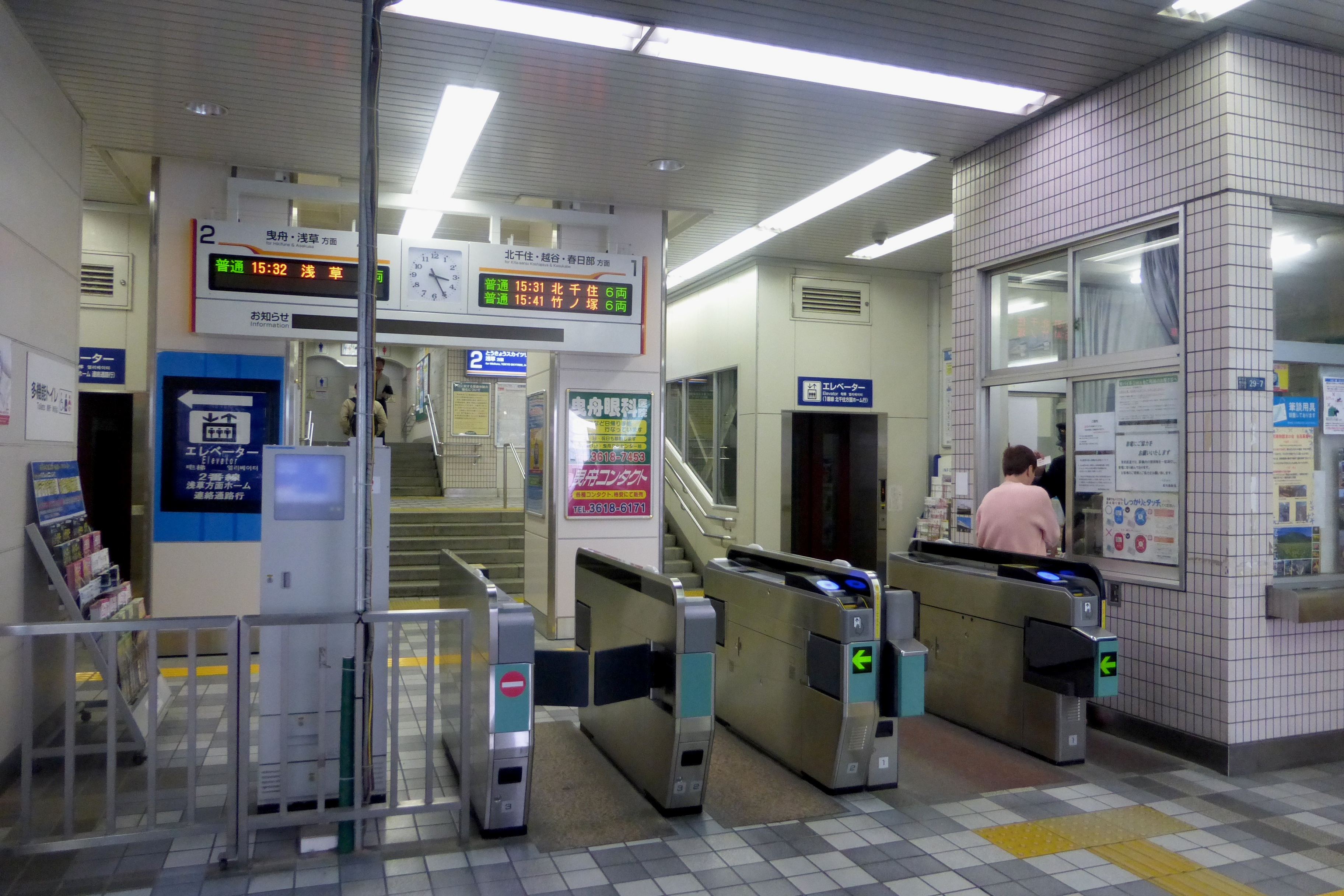 Higashi-Mukōjima Station ticket gates (東向島駅の改札)